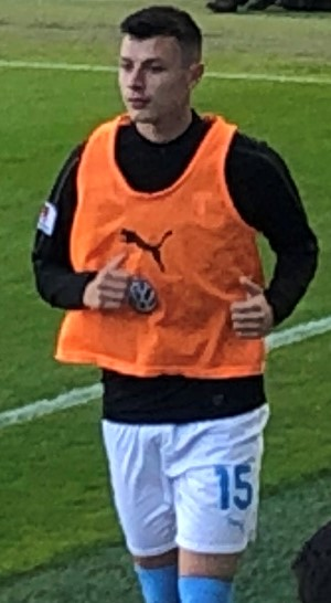 Anel Ahmedhodzic warming up during a game against IF Elfsborg in 2019.